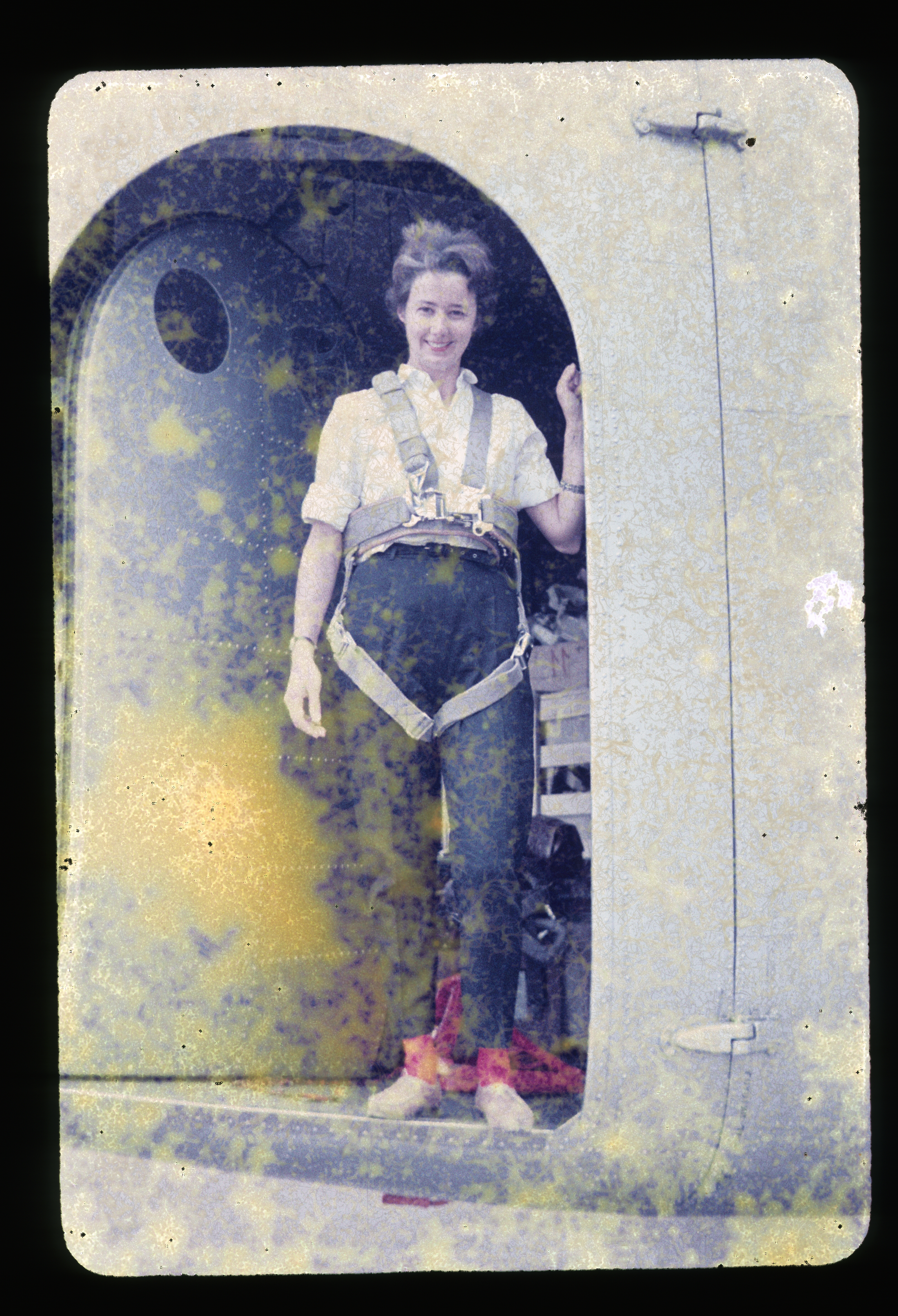 Lucille arrival in Uganda with Italian air force plane